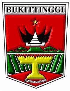 Lambang (Coat of Arms) of Kota (City) Bukittinggi, Provinsi Sumatera Selatan (South Sumatra Province), Indonesia